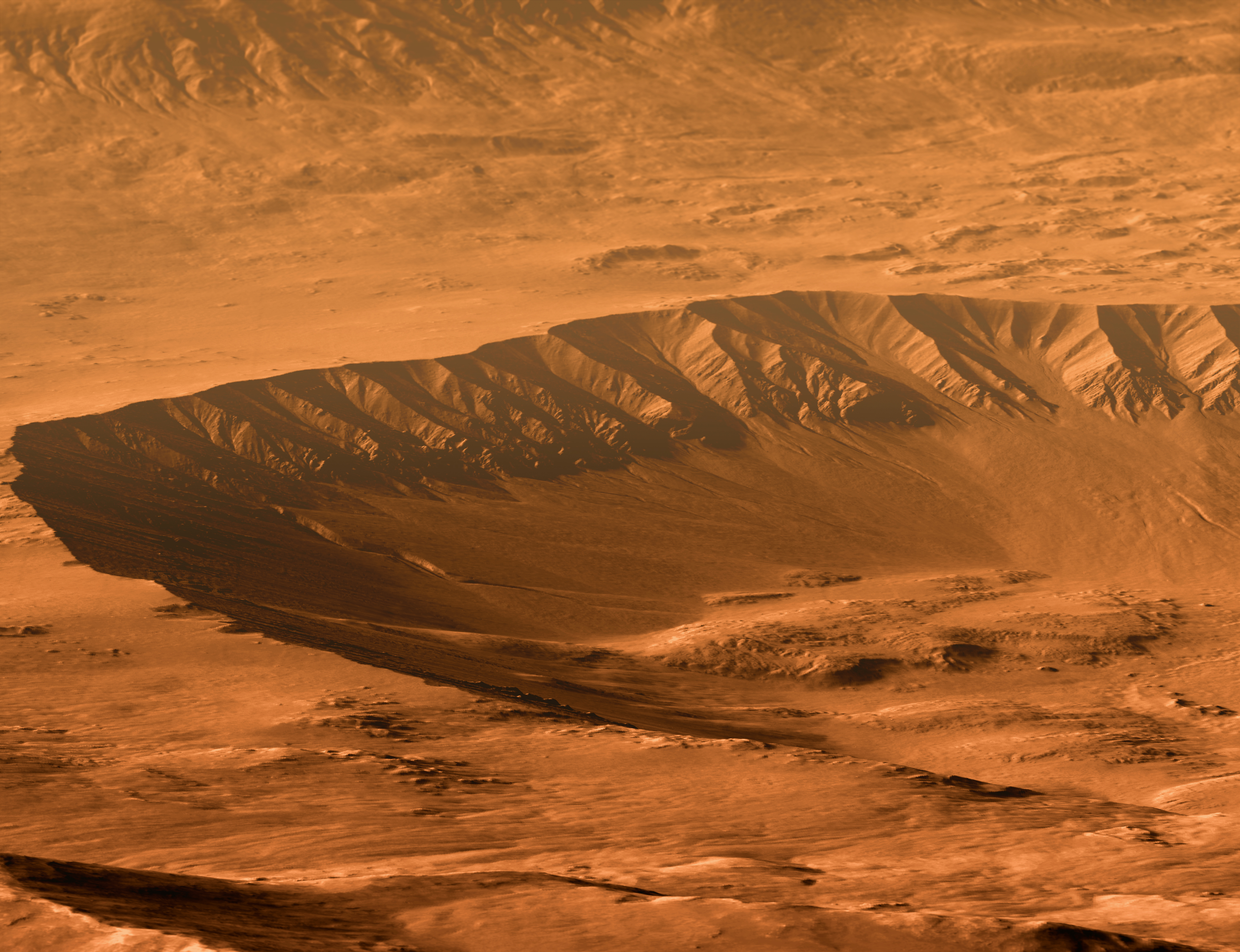 Rendered using Autodesk Maya and Adobe Photoshop. HiRISE data processed using HiView and gdal. Data: NASA/JPL/University of Arizona/USGS